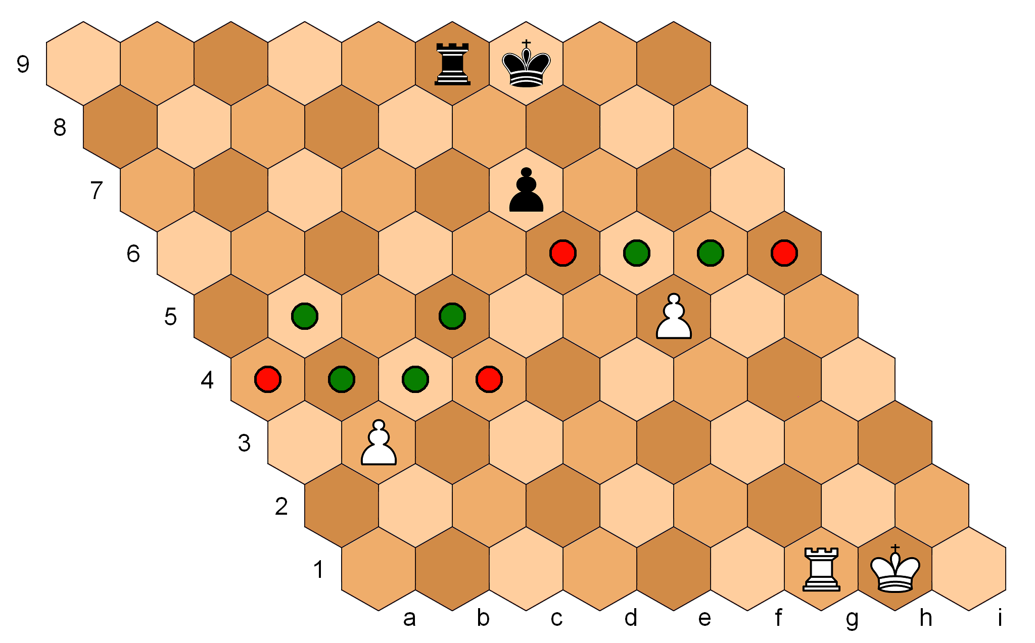 de Vasa's hex chess, pawn moves. Made in PAINT using ProjChess colors and the great chess icons fashioned by David Benbennick (User:Dbenbenn).